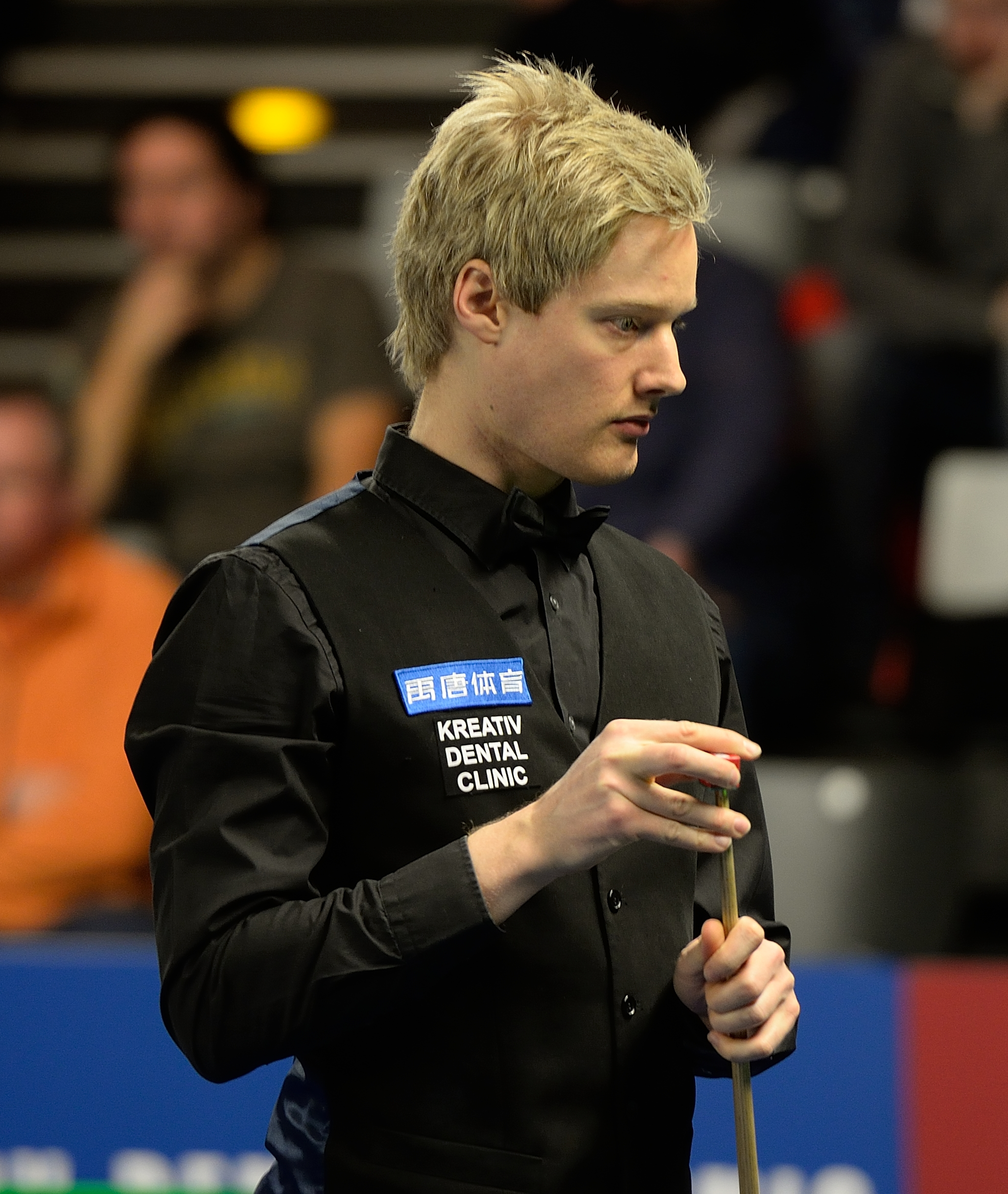 Picture taken in Berlin during the Snooker German Masters in 2015. Neil Robertson.